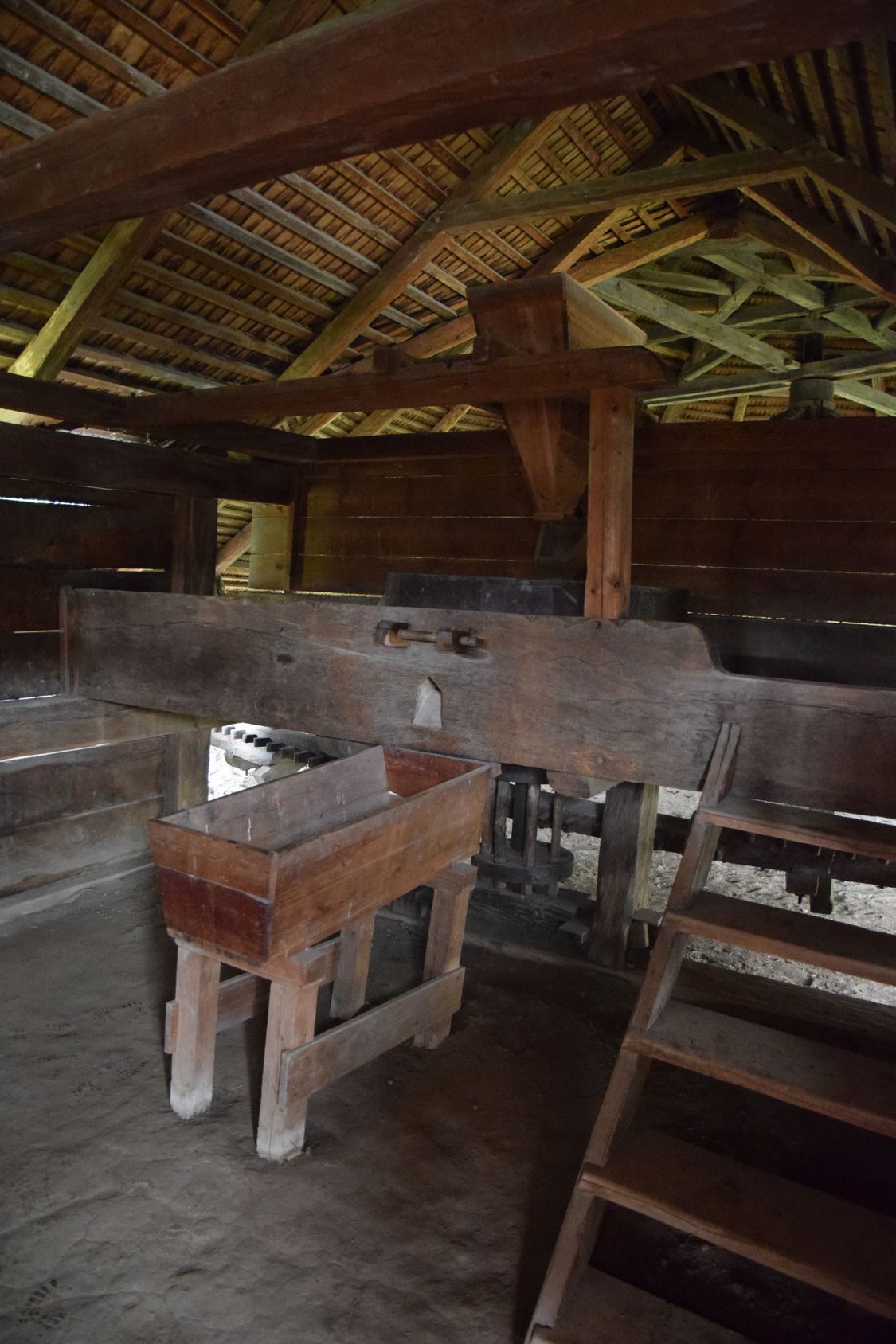 Tarpa, horse mill